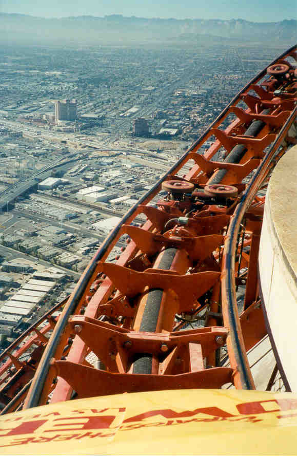 (Former) roller coaster on top of the Stratosphere Tower, Las Vegas, USA.